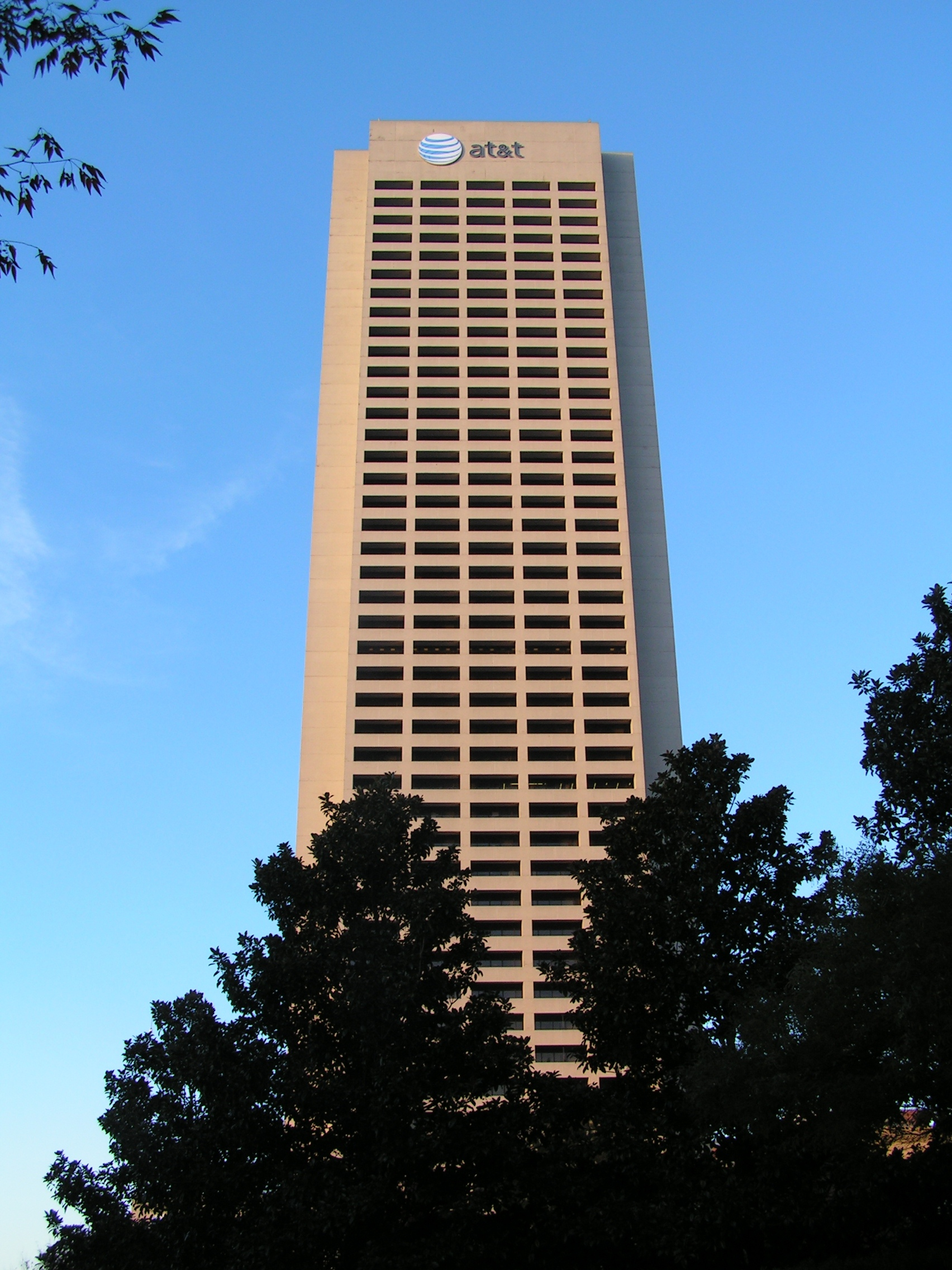 Photo of the AT&T Midtown Center in Midtown Atlanta, Georgia.